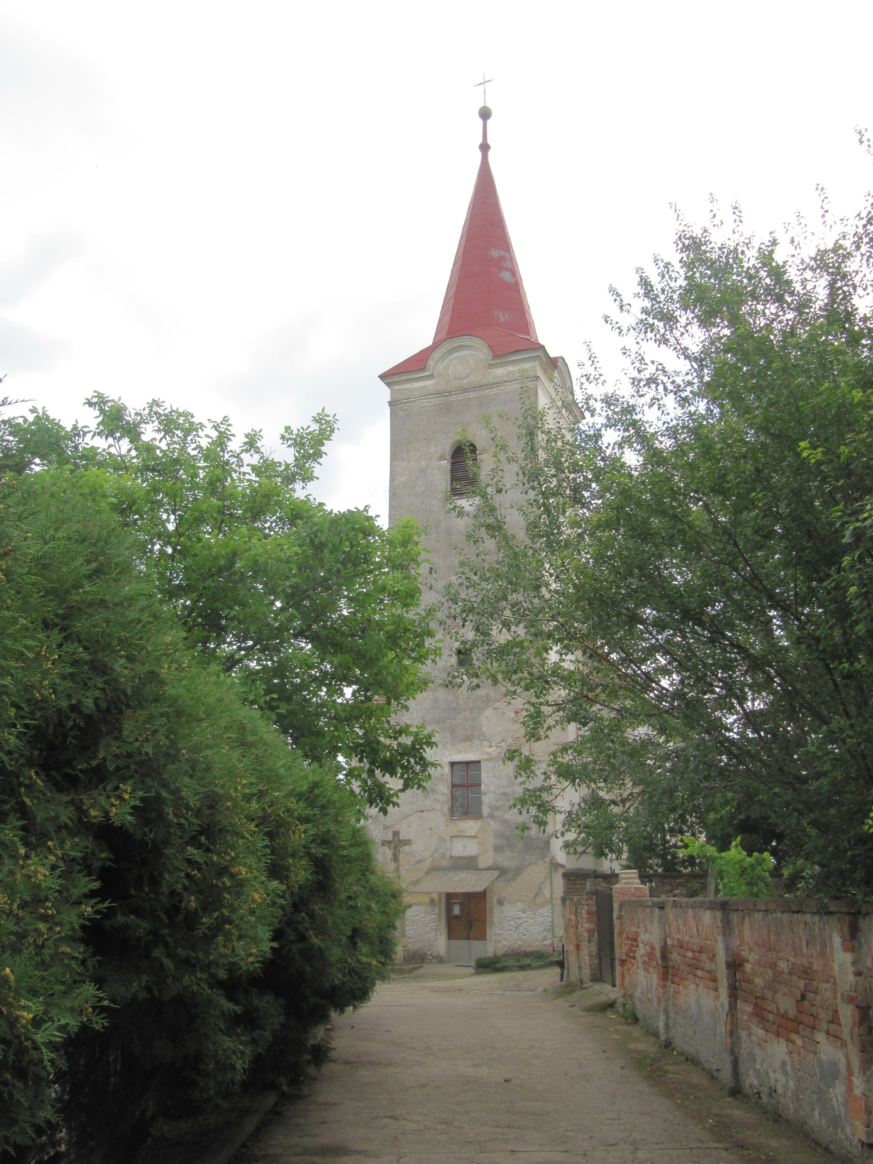 Dobré Pole in Břeclav District, Czech Republic. Church of St. Cecilia from the 18th century.